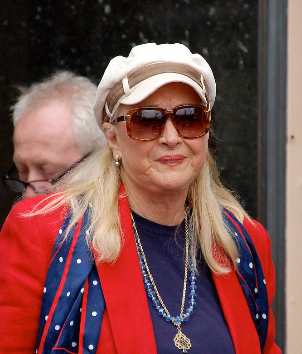 Diane Ladd at a ceremony for Olympia Dukakis to receive a star on the Hollywood Walk of Fame.